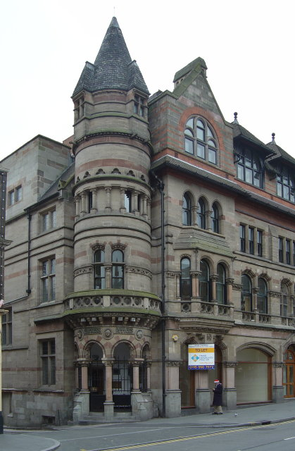 Watson Fothergill - Express Offices, Parliament Street